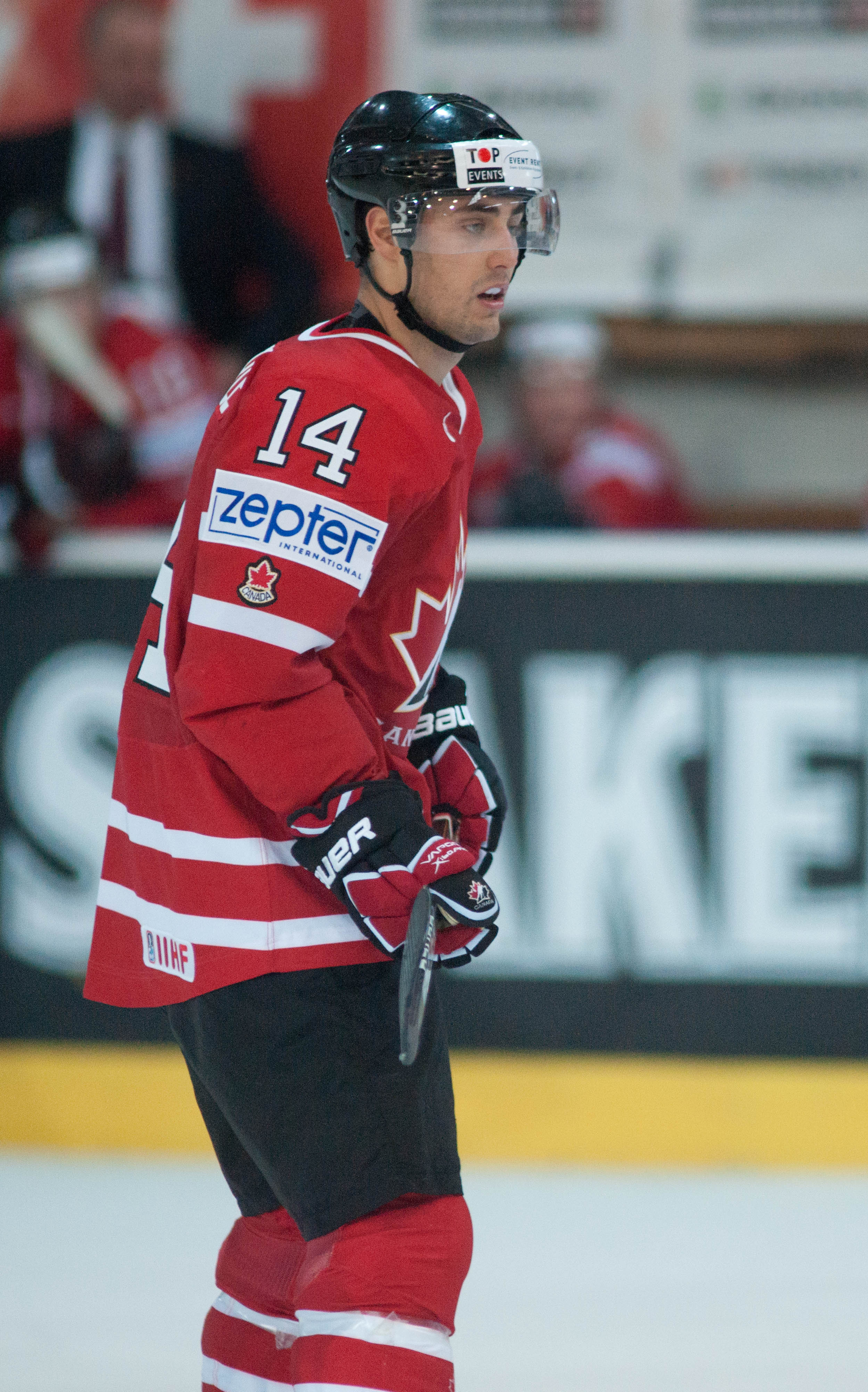 Switzerland vs. Canada, 29th April 2012